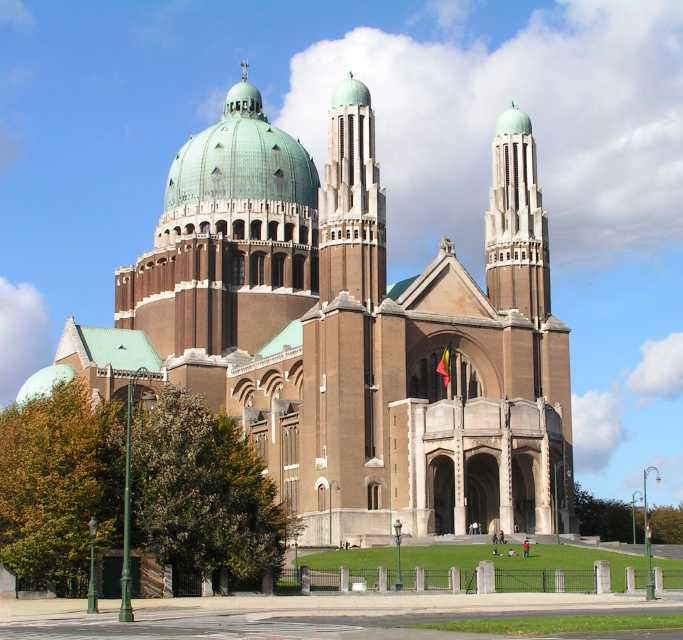 Basilica of the Sacred Heart, Brussels, Belgium.